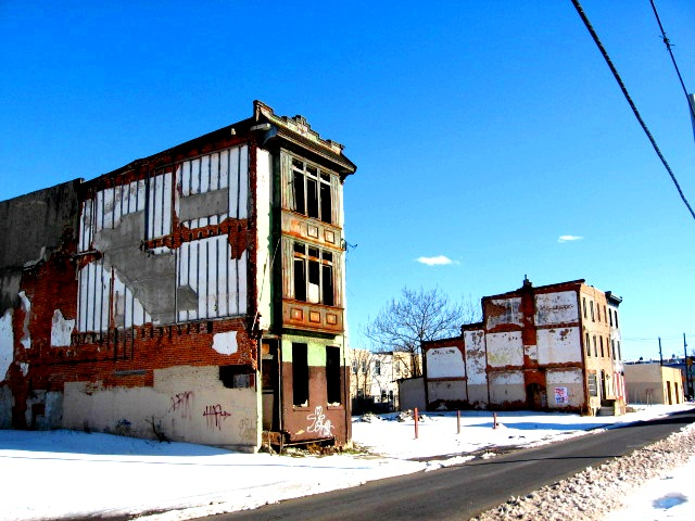 Urban decay as typically seen in an urban street in South Philadelphia. Philadelphia, Pennsylvania.